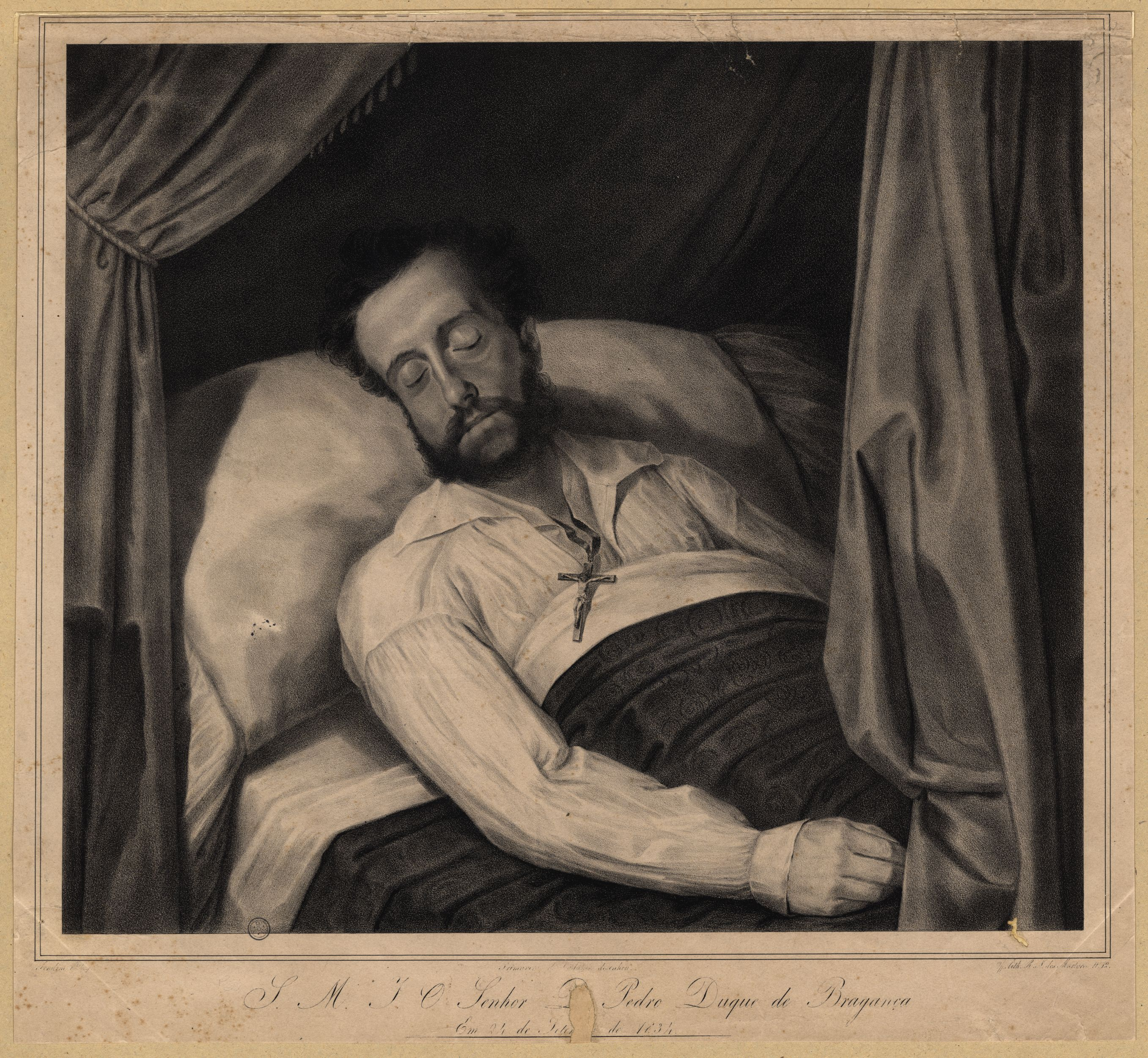 Emperor Dom Pedro I of Brazil (or King Dom Pedro IV of Portugal), 1834.